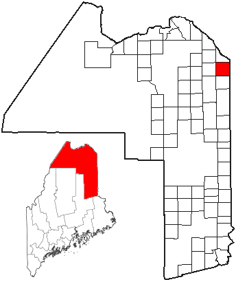 Adapted from U.S. Census Bureau maps (American FactFinder) and Wikipedia's ME county maps by Bumm13.